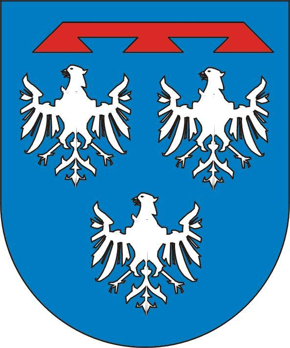 coat of arms principality of Leiningen